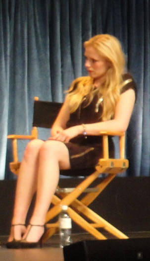 Emma Bell at the PaleyFest 2011 - The Walking Dead panel